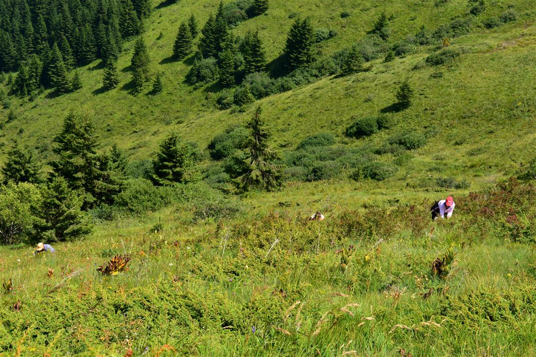 Raska Municipality - Kopaonik